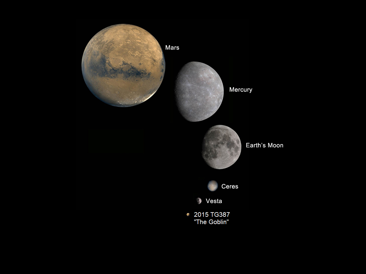 2015 TG387 is estimated to be 300 km (190 mi) in diameter, making it about half the size of Vesta which has a mean diameter of 525 km (326 mi).